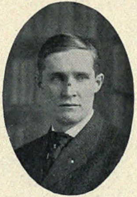 Photograph of David L. Dunlap